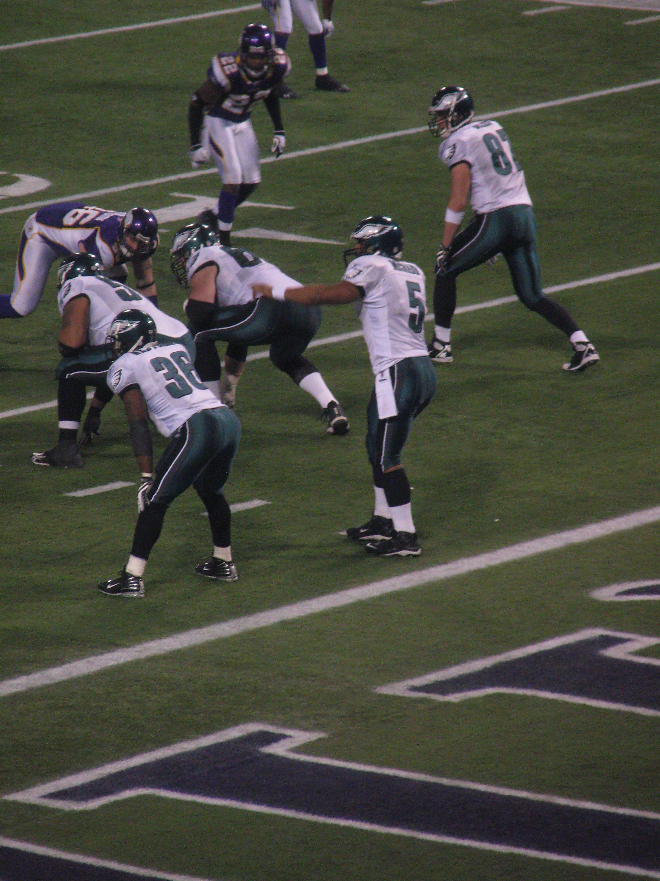 01/04/2009 - Donovan McNabb and Brian Westbrook